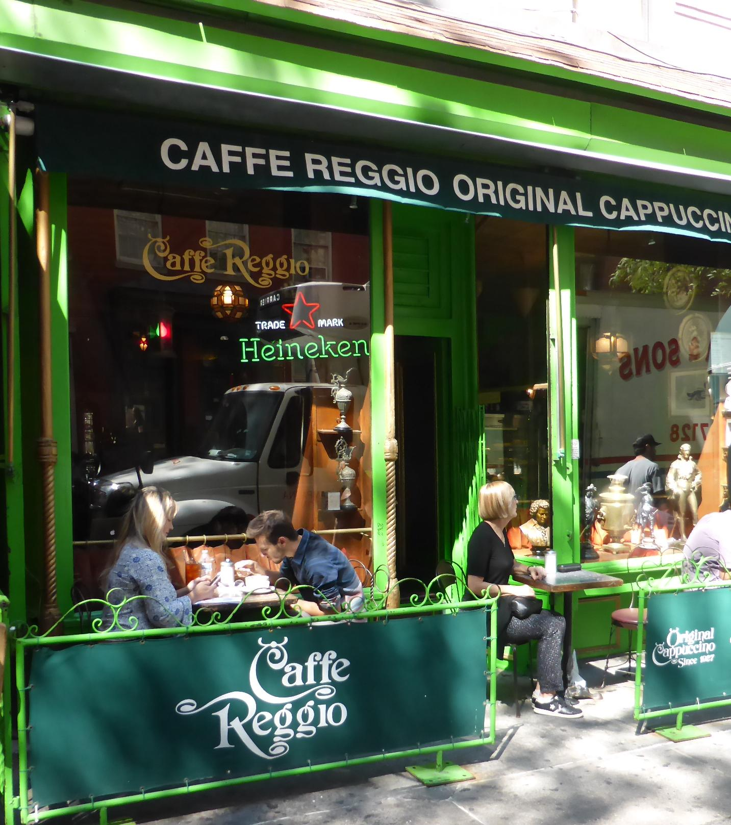 Caffee Reggio, Greenwich Village, New York City, September 2015